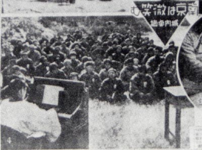 Chinese Christians having worship service in Nanking with Rev. John Maggee, American pastor, after peace has been restored to the city. All the photos were taken to report about Nanking after the Japanese occupation in 1937 and placed in the Japanese newspaper article entitled "Nanking Smiles". The article wrote, "Hearing their hymns, we have noticed, 'Oh, today's Sunday.'"